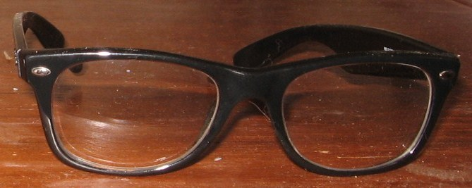 Photo I took of one of my own pairs of eyeglasses. Horn-rimmed style. PD release.